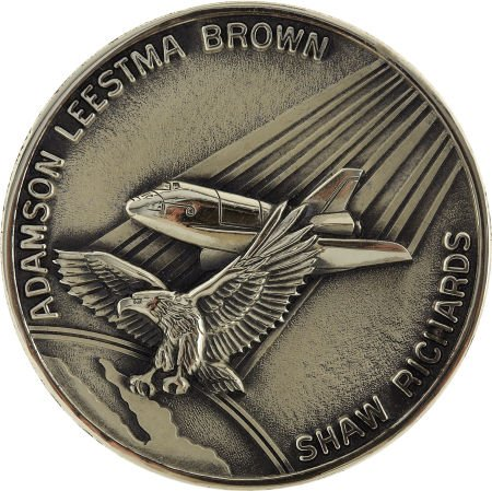 Photo I took of the Robbins Medallion for STS28 Please acknowledge "Phil Konstantin" as the creator of this photograph.